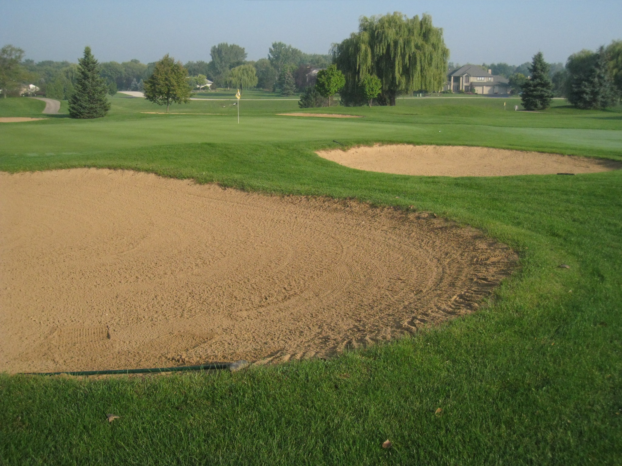 Golf bunkers